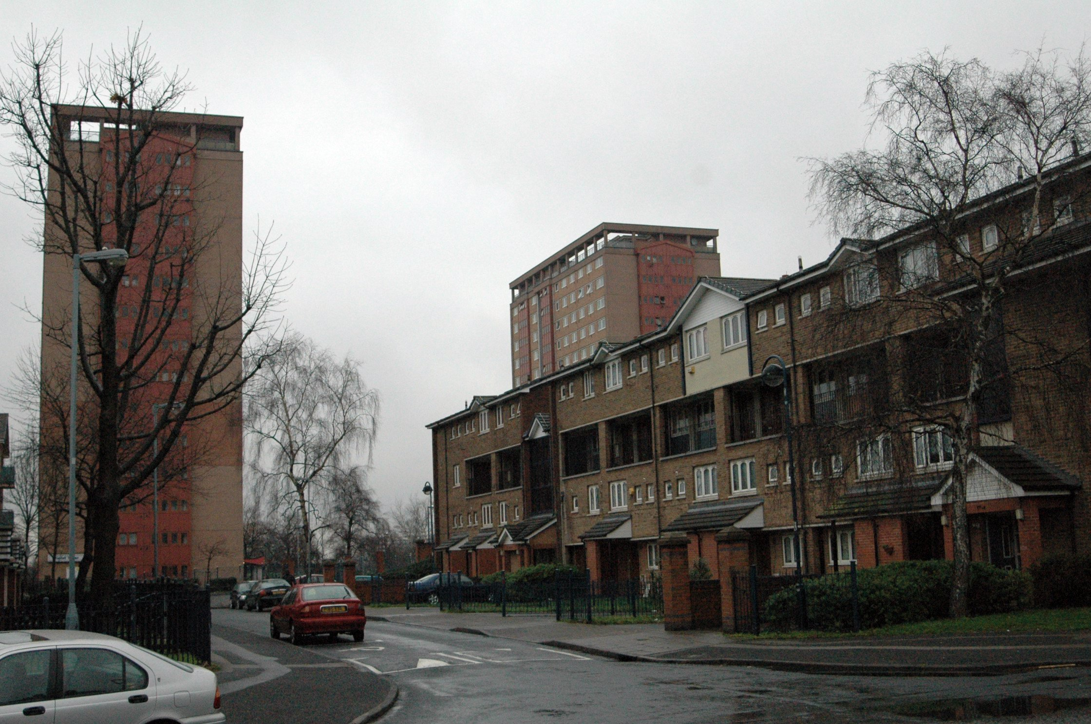 Created by Erebus555. This image shows flats in the Duddeston area of Birmingham.